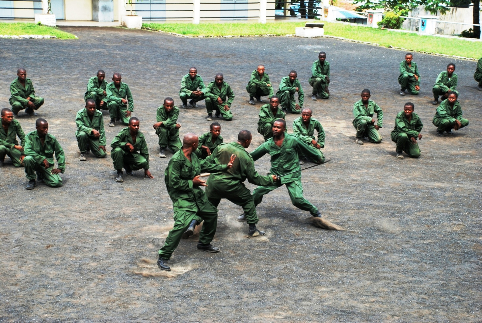 Comoran Defense Force soldiers show off hand-to-hand combat skills on January 21, 2009.